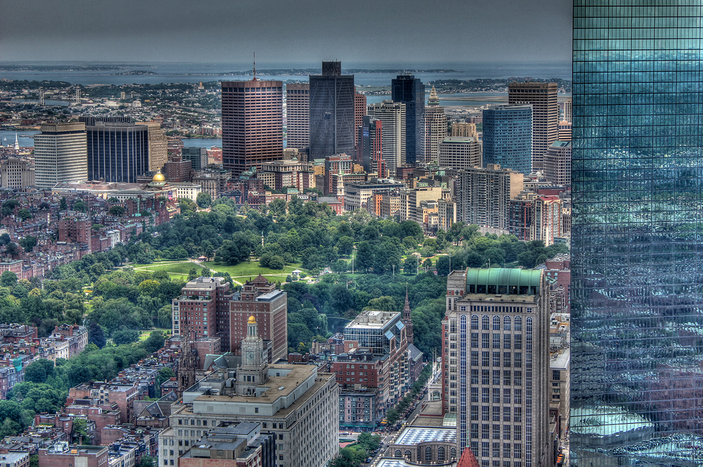 Boston Massachusetts USA